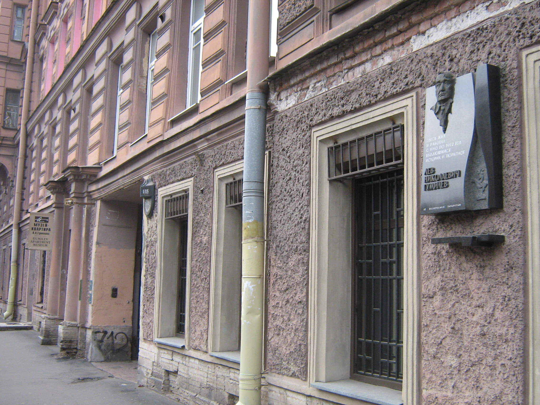 Saint Petersburg (Russia), Tsentralny District